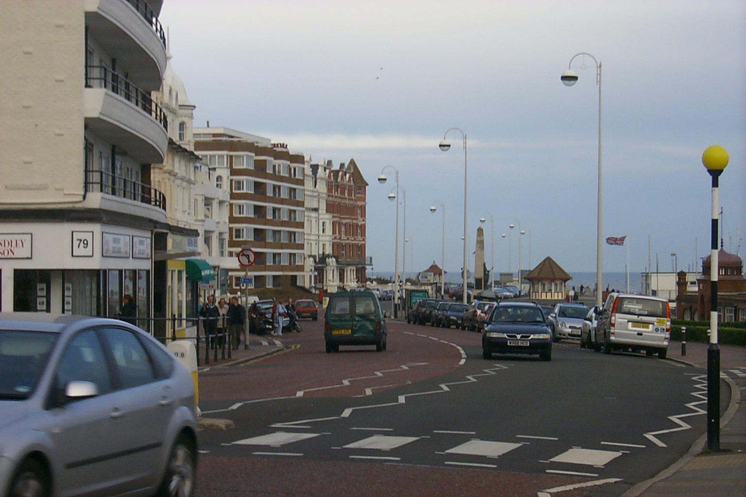 Bexhill-on-Sea (often simply Bexhill) is a town and seaside resort in the county of East Sussex, in the south of England. Photo taken on 28 October 2005